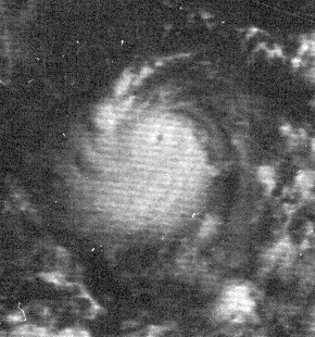 This is a section of an ATS-3 satellite picture archived at the National Hurricane Center in Coral Gables, FL from September 9, 1971 at 1339z which shows Hurricane Edith